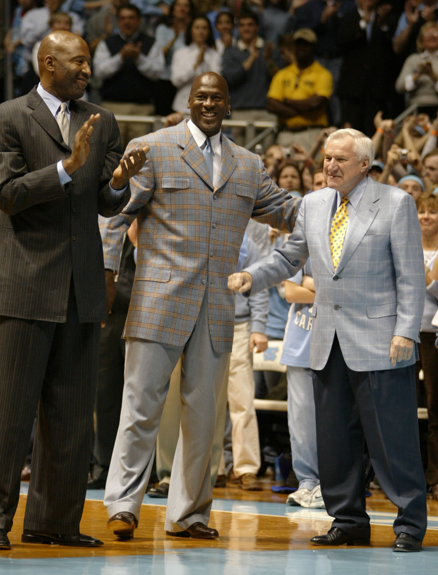 Michael Jordan, Dean Smith, and James Worthy at UNC Basketball game. Feb. 10, 2007.